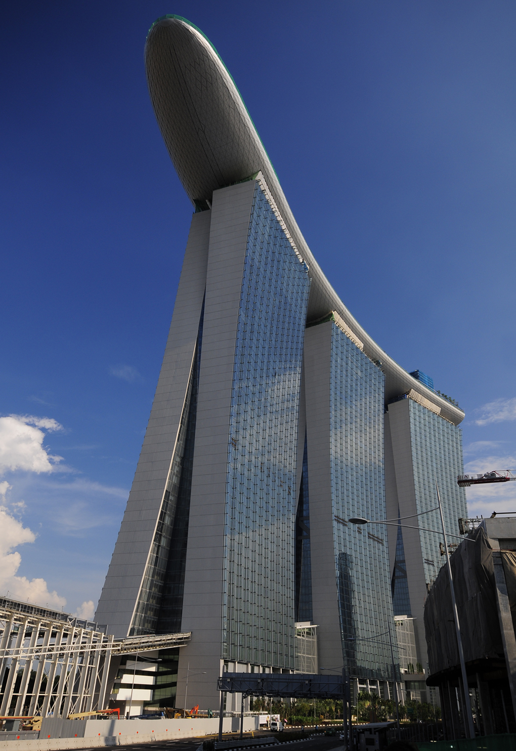 Marina Bay Sands in Singapore.